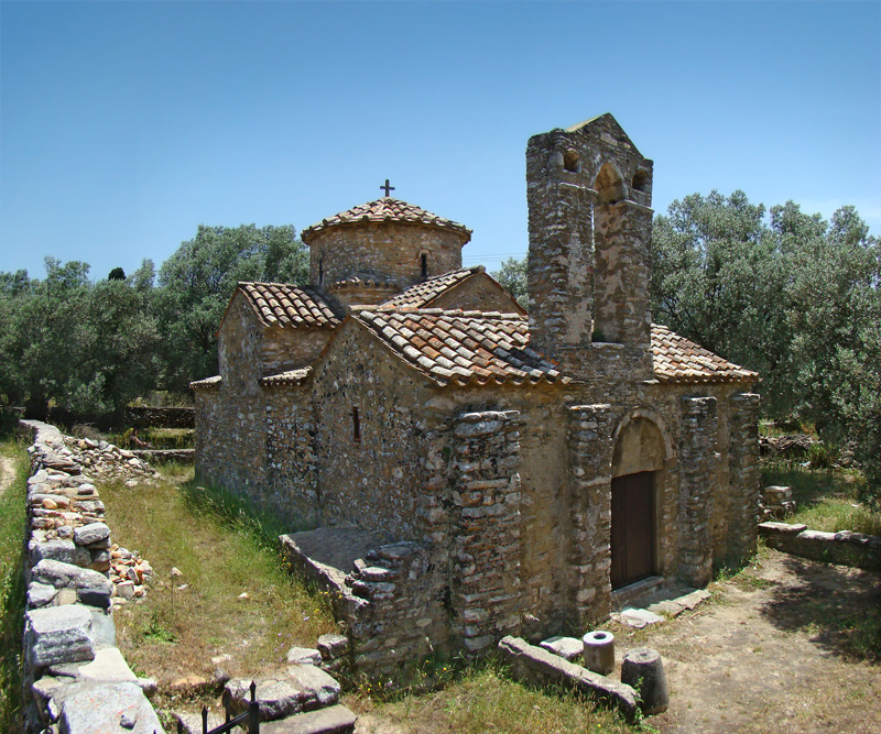 Church of Agios Georgios Diasoritis, Chalkio, Naxos, Greece.